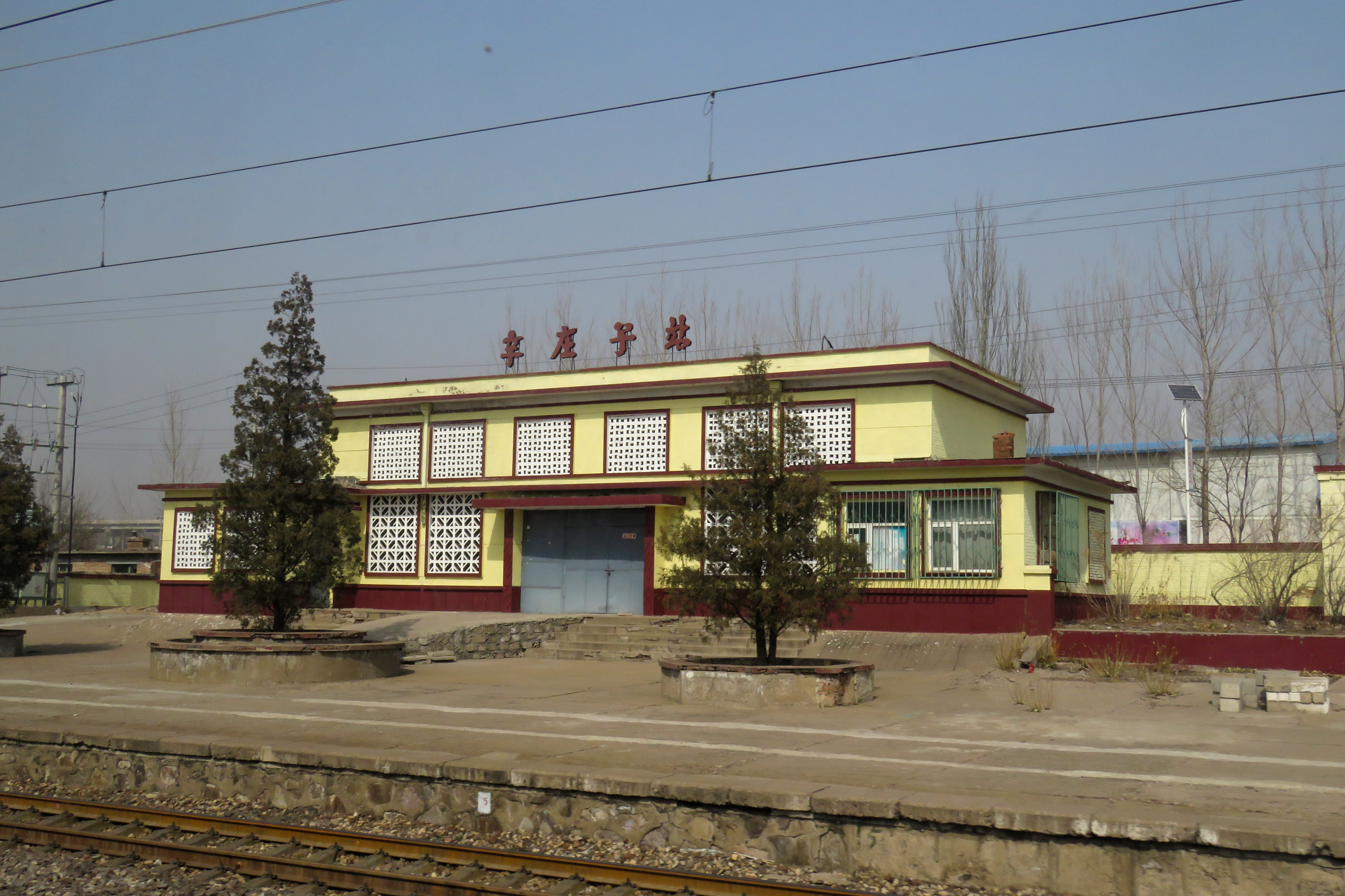 Surely not THAT "Xinzhuang"!